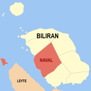 Map of Biliran showing the location of Naval